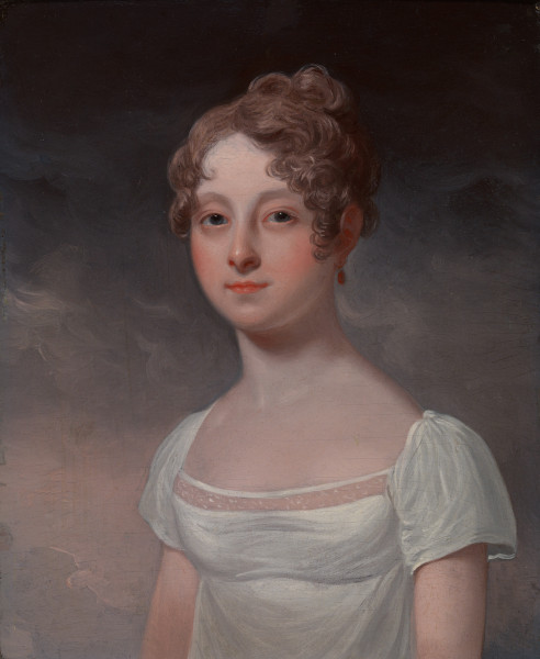 Mary Catherine Bolton actress later Lady Thurlow by Samuel De Wilde - guess 1810